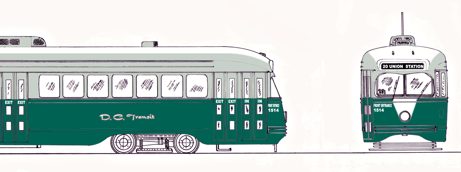 «D.C. Transit: Color scheme» (original caption)